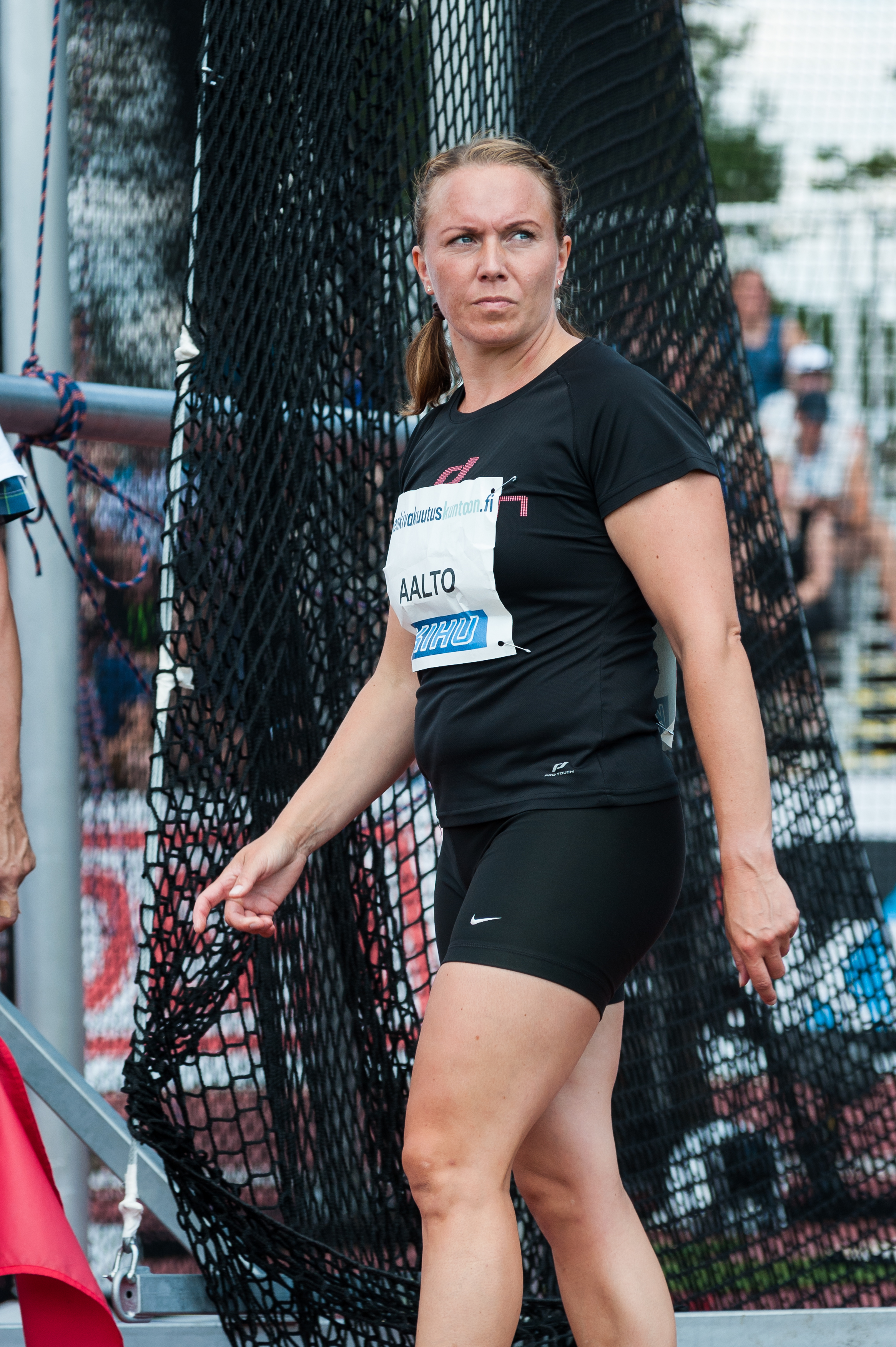 Women's discus throw competition at the 2018 Kalevan Kisat, the Finnish championships in athletics, in Jyväskylä, Finland.